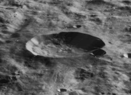 Oblique view of Ellerman, on the far side of the moon, facing west.